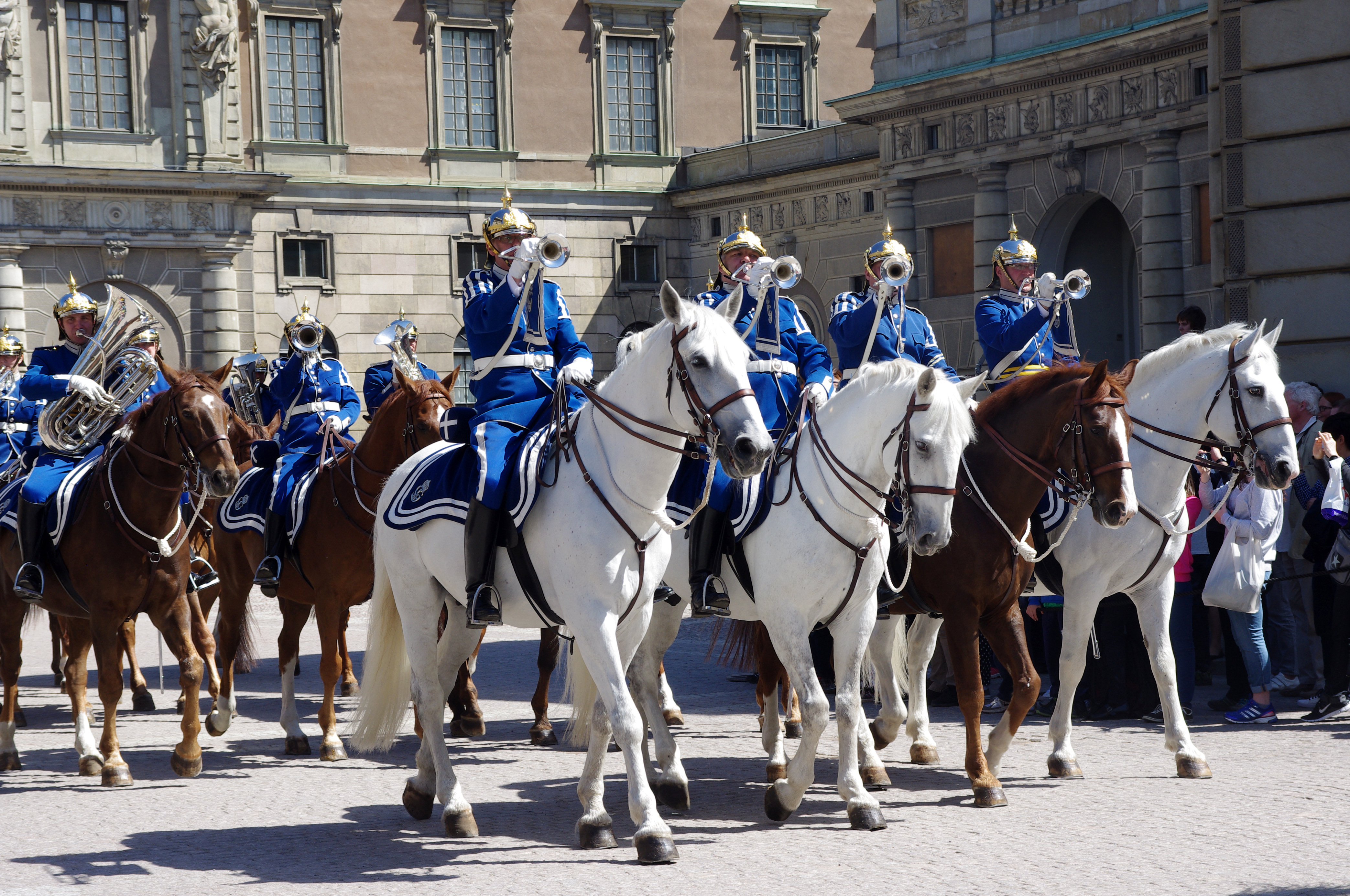 The Royal Guard in Stockholm